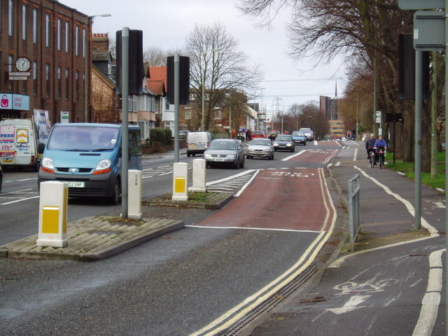 Botley Road - Oxford Each morning this road is heavy with traffic trying to enter Oxford. Each evening it all streams out again.